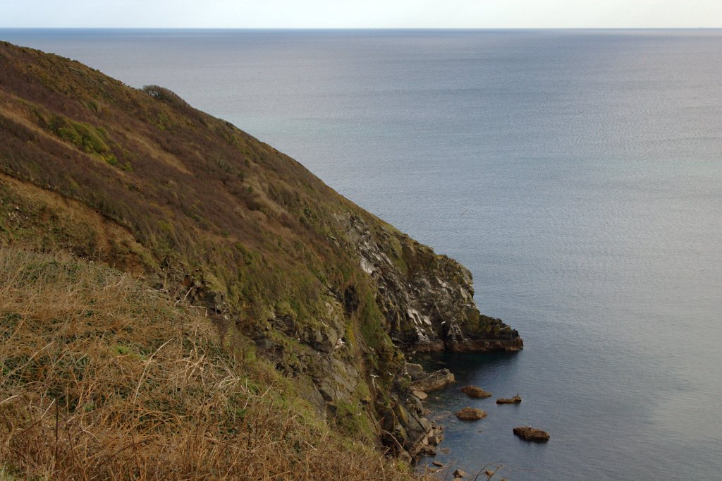 Manare Point A view over the cliffside from the coast path.